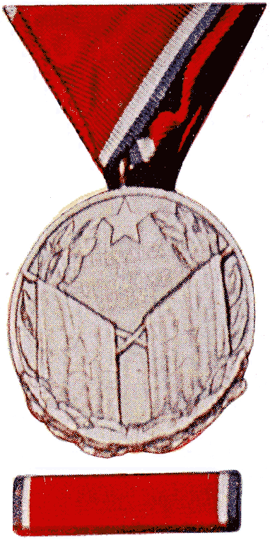 Medal for military virtues